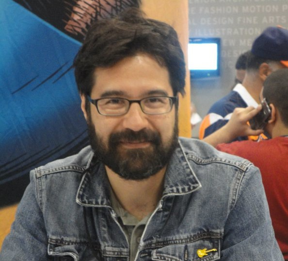 Greg Pak at the 2010 New York Comic-Con